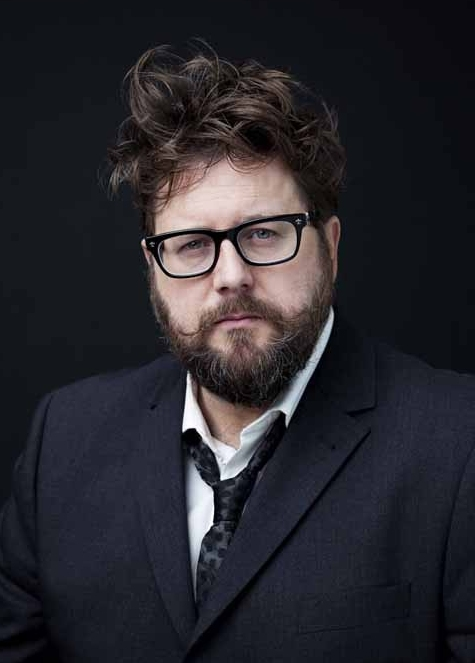 Martin Koolhoven, Dutch movie director and screenwriter